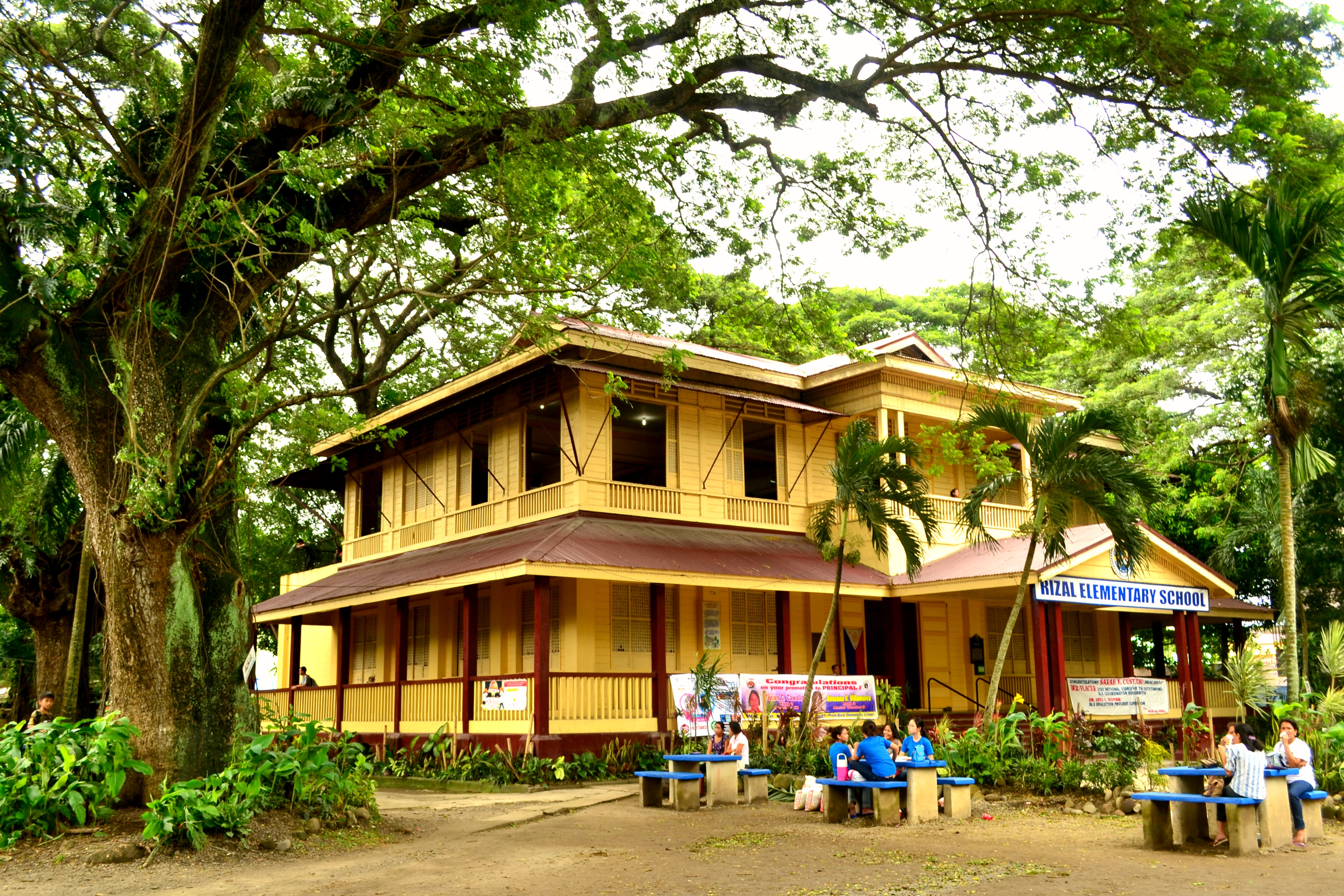 This school is named after our National Hero Dr. Jose Rizal. The old school building serves as the administration building of the school which is still functional and standing with splendor surrounded by trees besides the modern school gymnasium.This school is located along the road and it can be easily located.